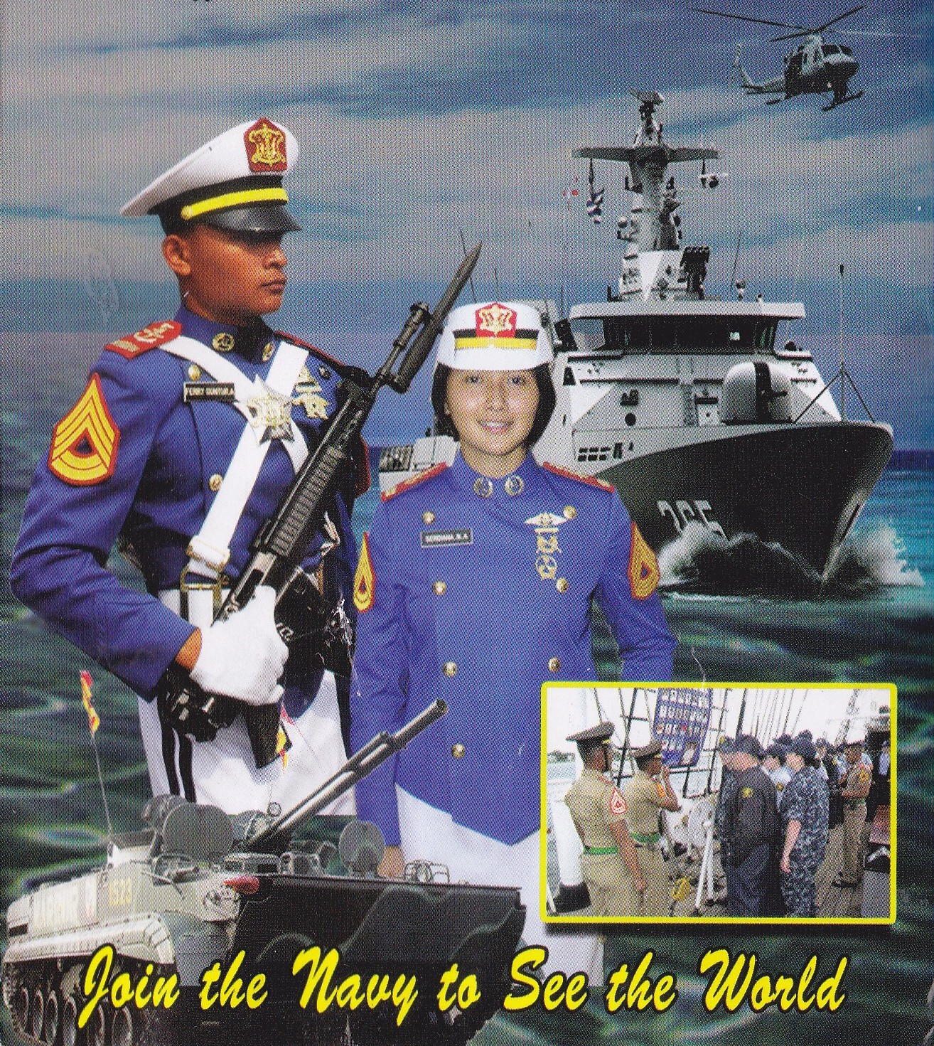 An Indonesian Naval Academy promotional recruiting poster by the Indonesian Navy